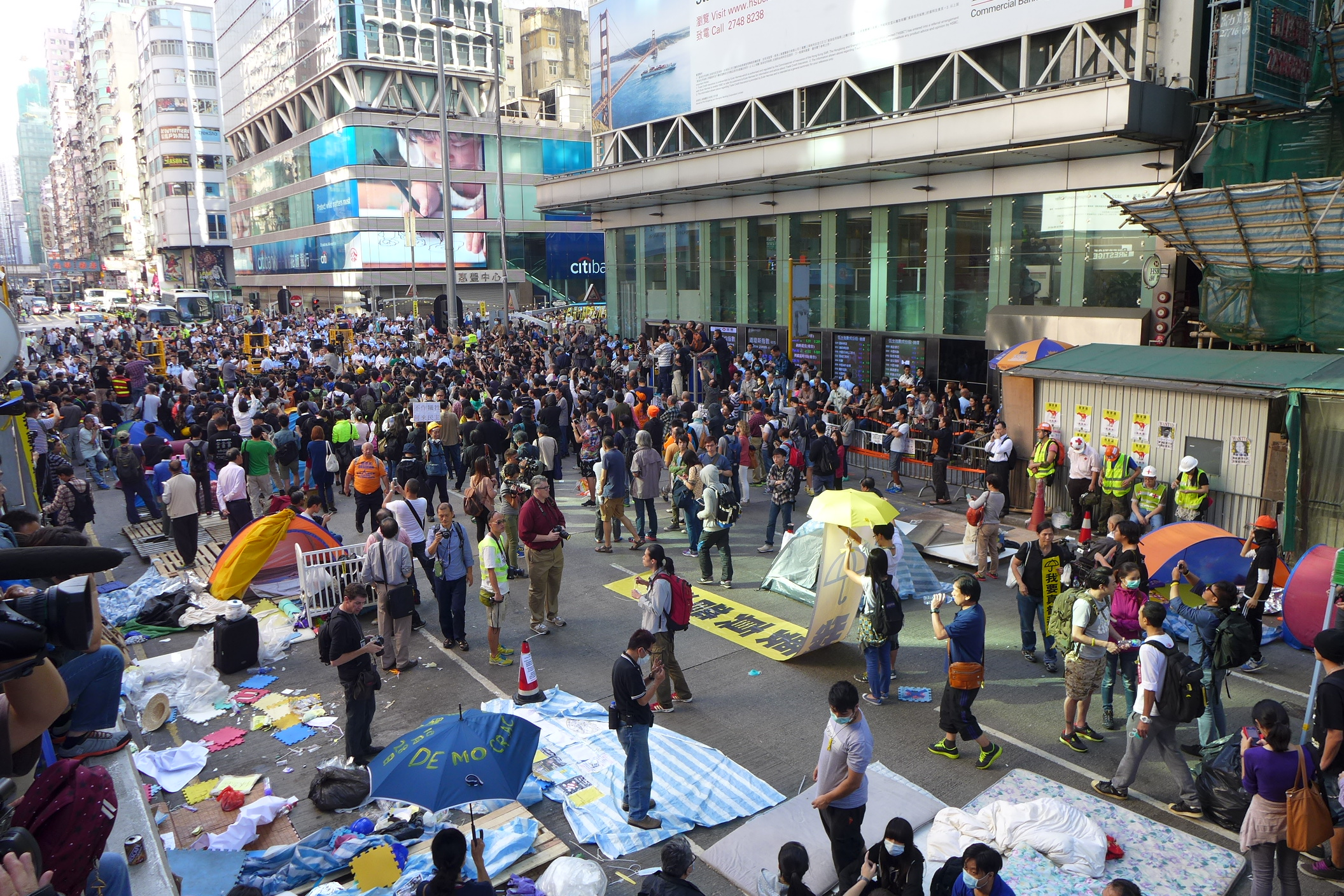 Argyle Street before Police Force Clean